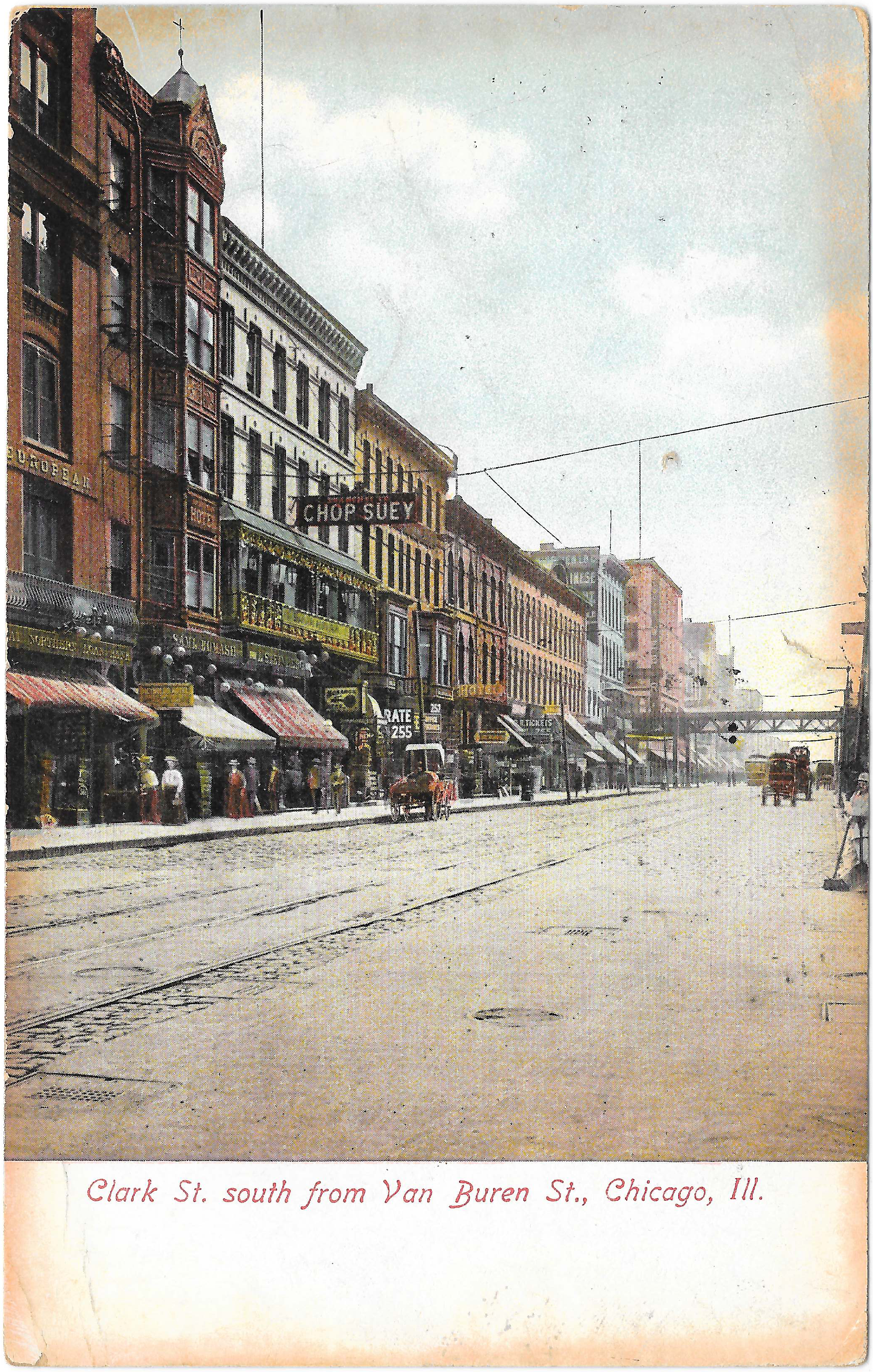 Postcard showing Clark Street south from Van Buren St. in Chicago, IL